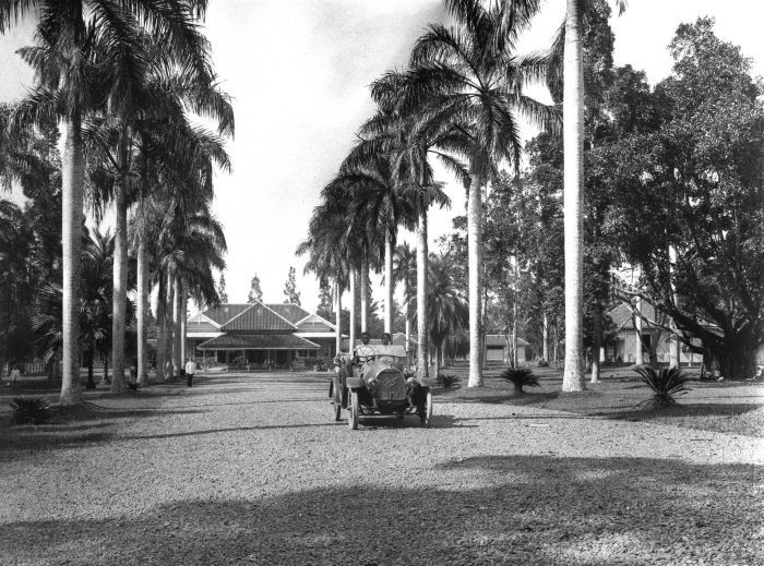 The Regent of Cianjur and his wife driving an Opel car in front of their house